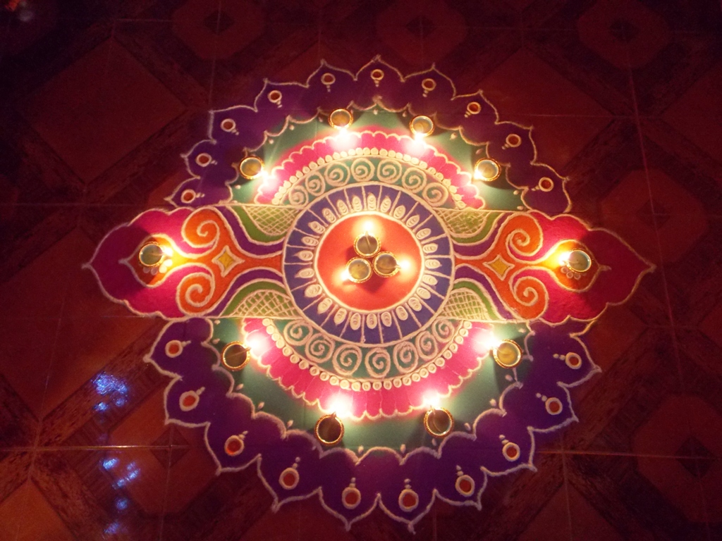 The purpose of rangoli is decoration, and it is thought to bring good luck. Design depictions may also vary as they reflect traditions, folklore and practices that are unique to each area.Rangoli is an Indian sandpainted design often seen in Diwali, the Indian festival of lights.